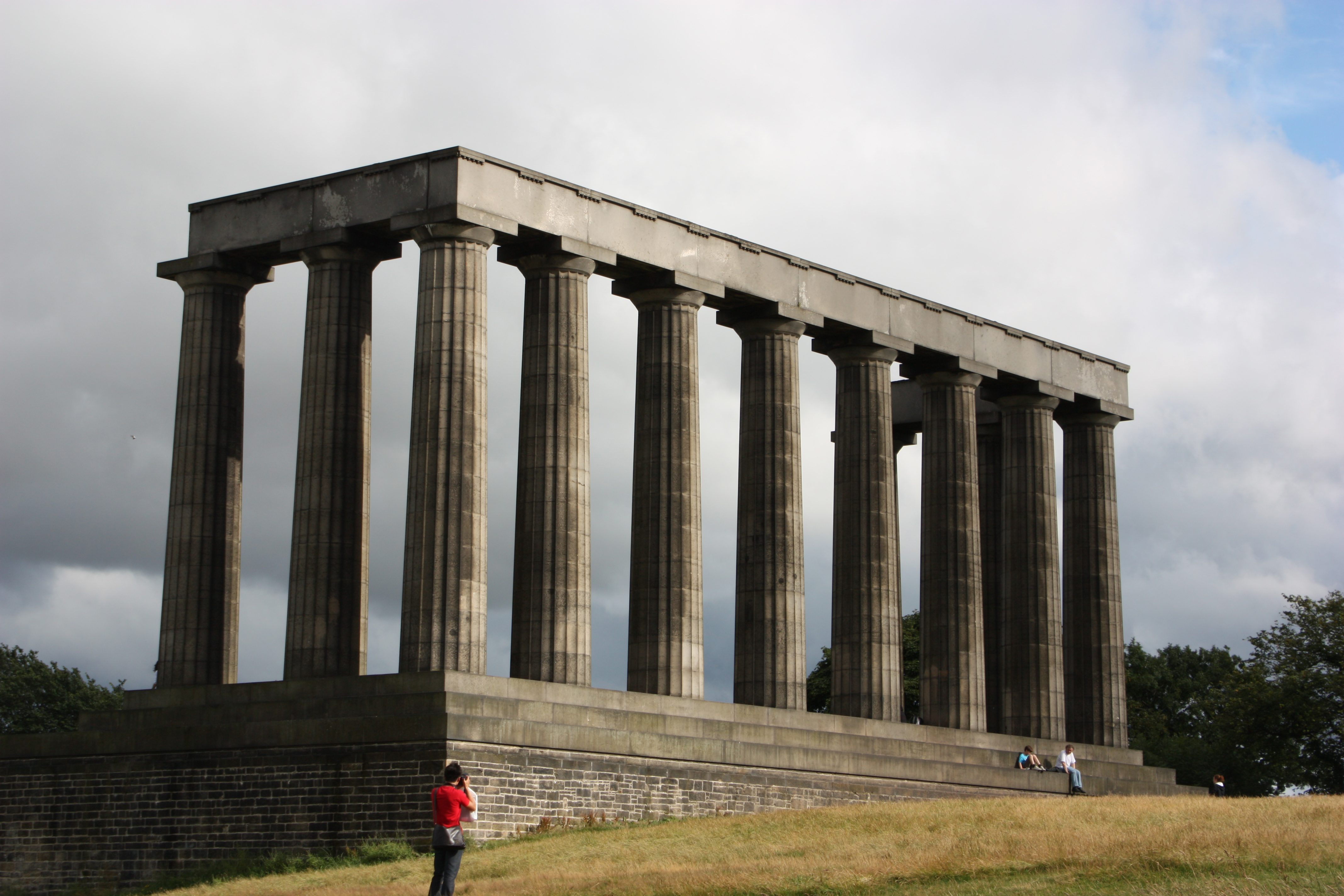 The National Monument on Calton Hill. Edinburgh (Scotland).